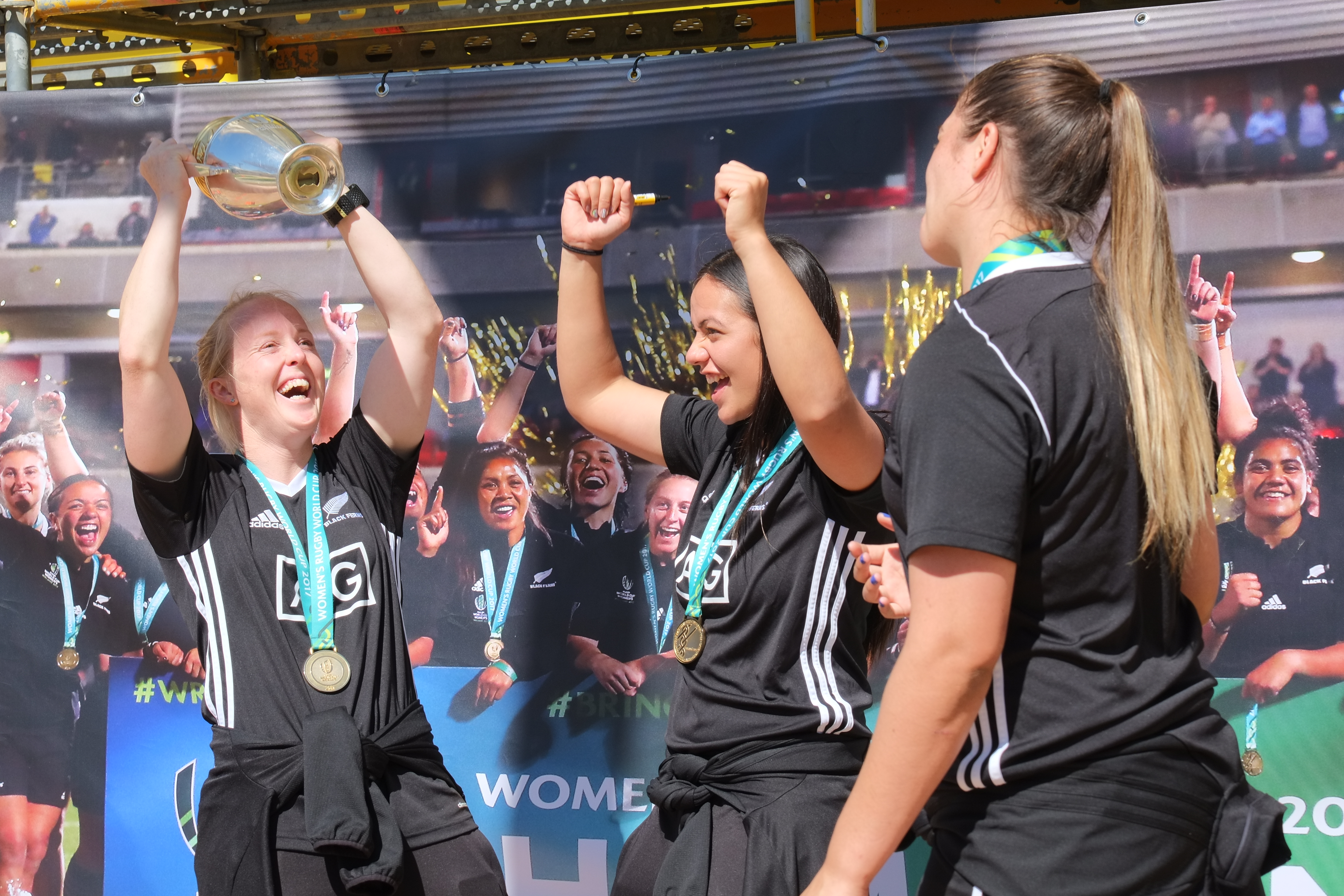 Kendra Cocksedge and Stacey Waaka re-enacting celebrating the WRWC win